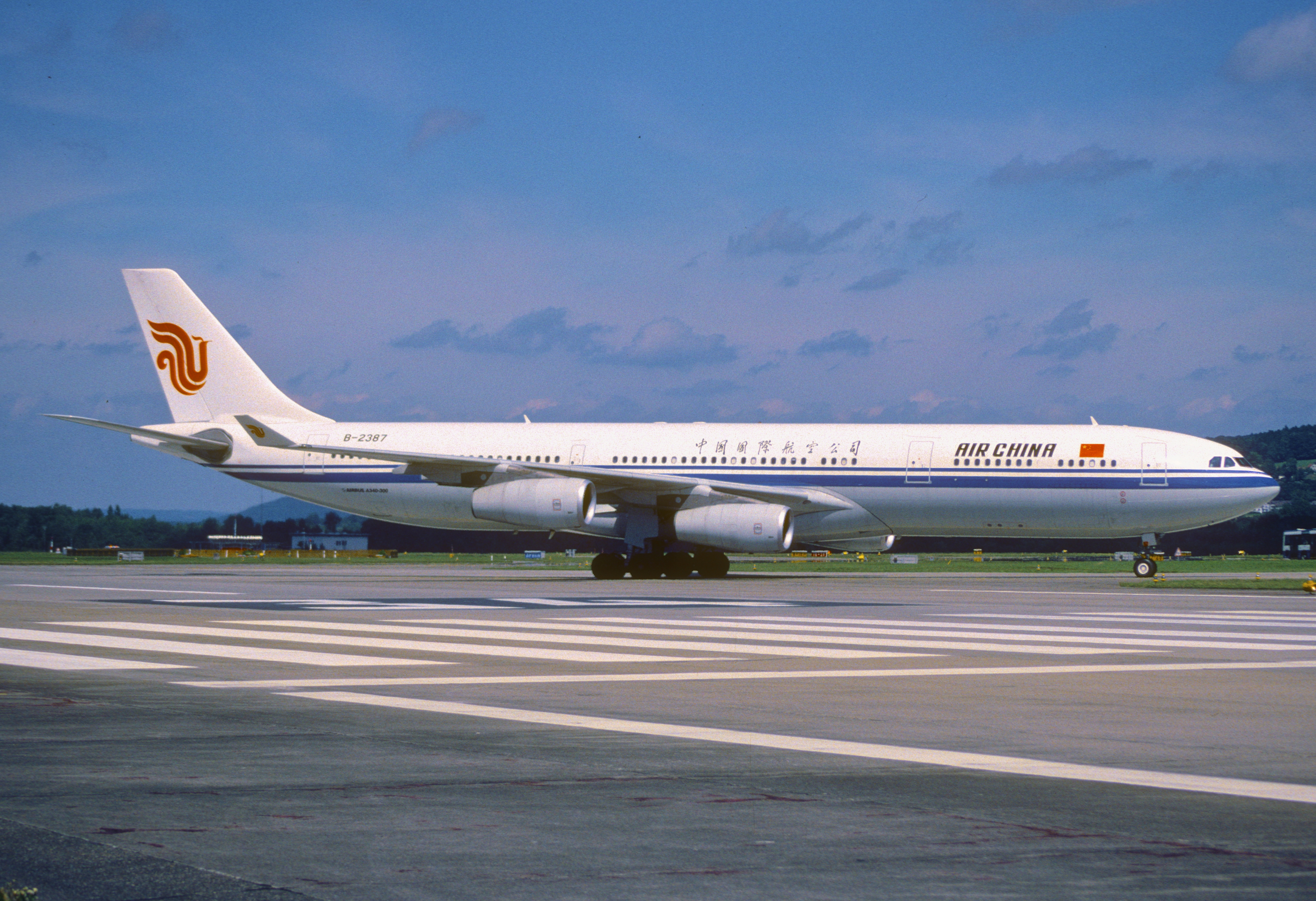 38bz - Air China Airbus A340-313X; B-2387@ZRH;23.08.1998